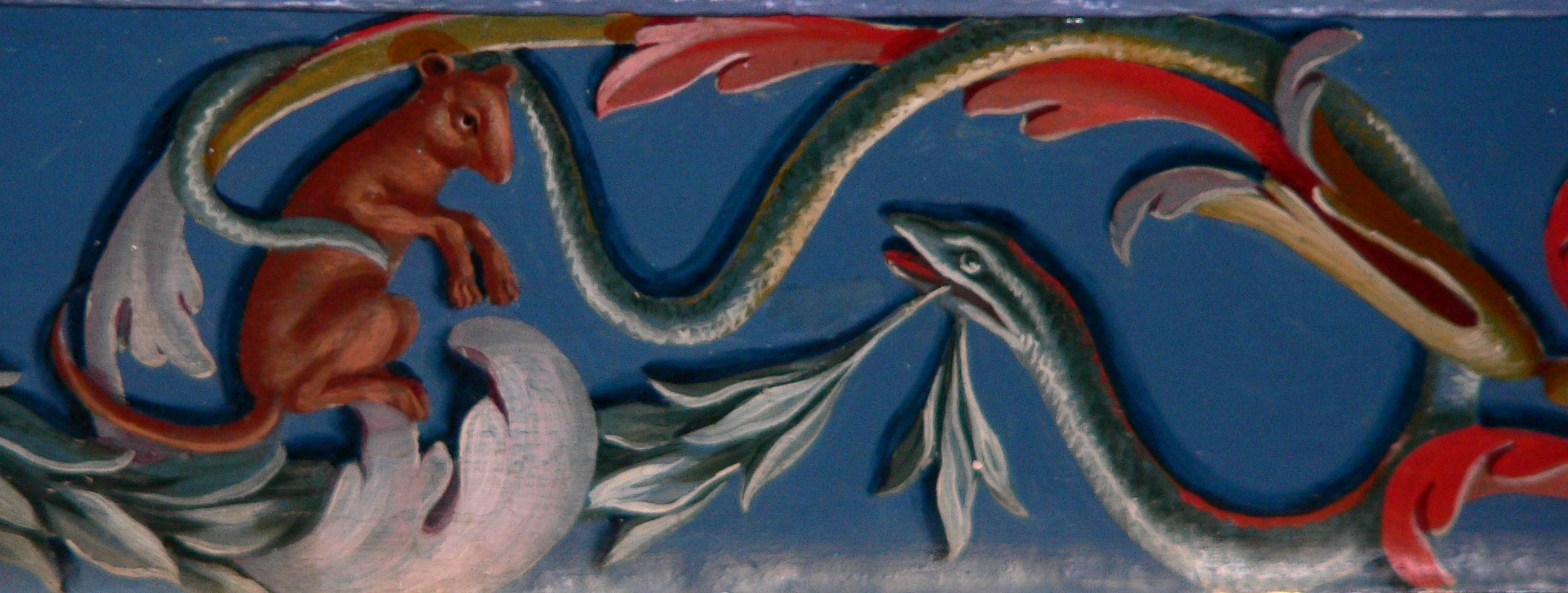 rats and snakes painted into the Blue Velvet Room ceiling by William Kent